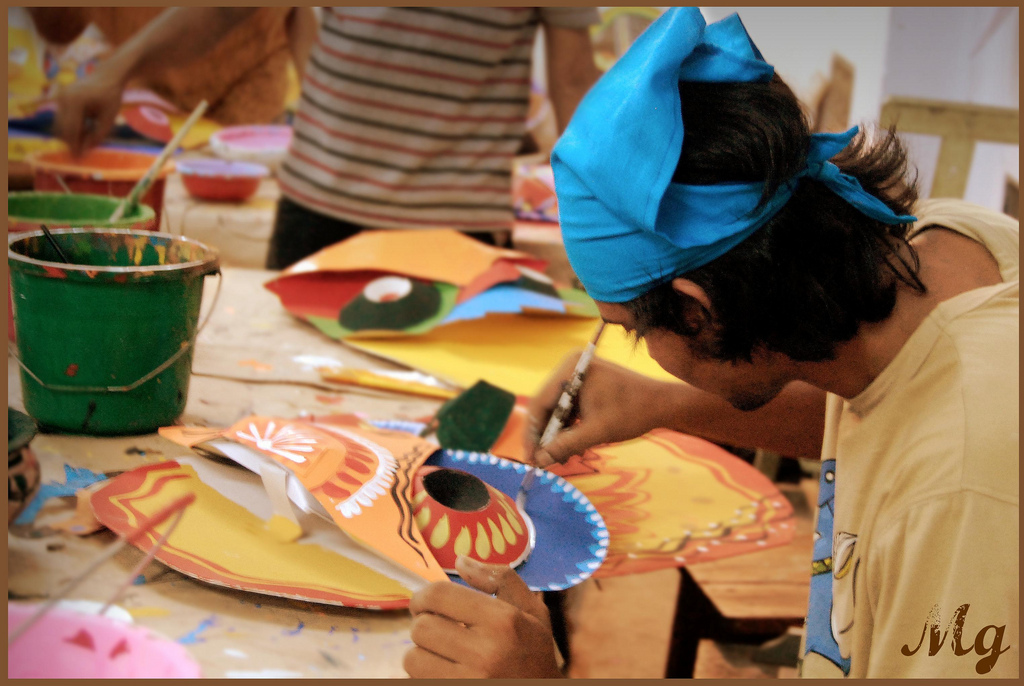 Preparations for Pohela Boishakh 1417 by Charukola students